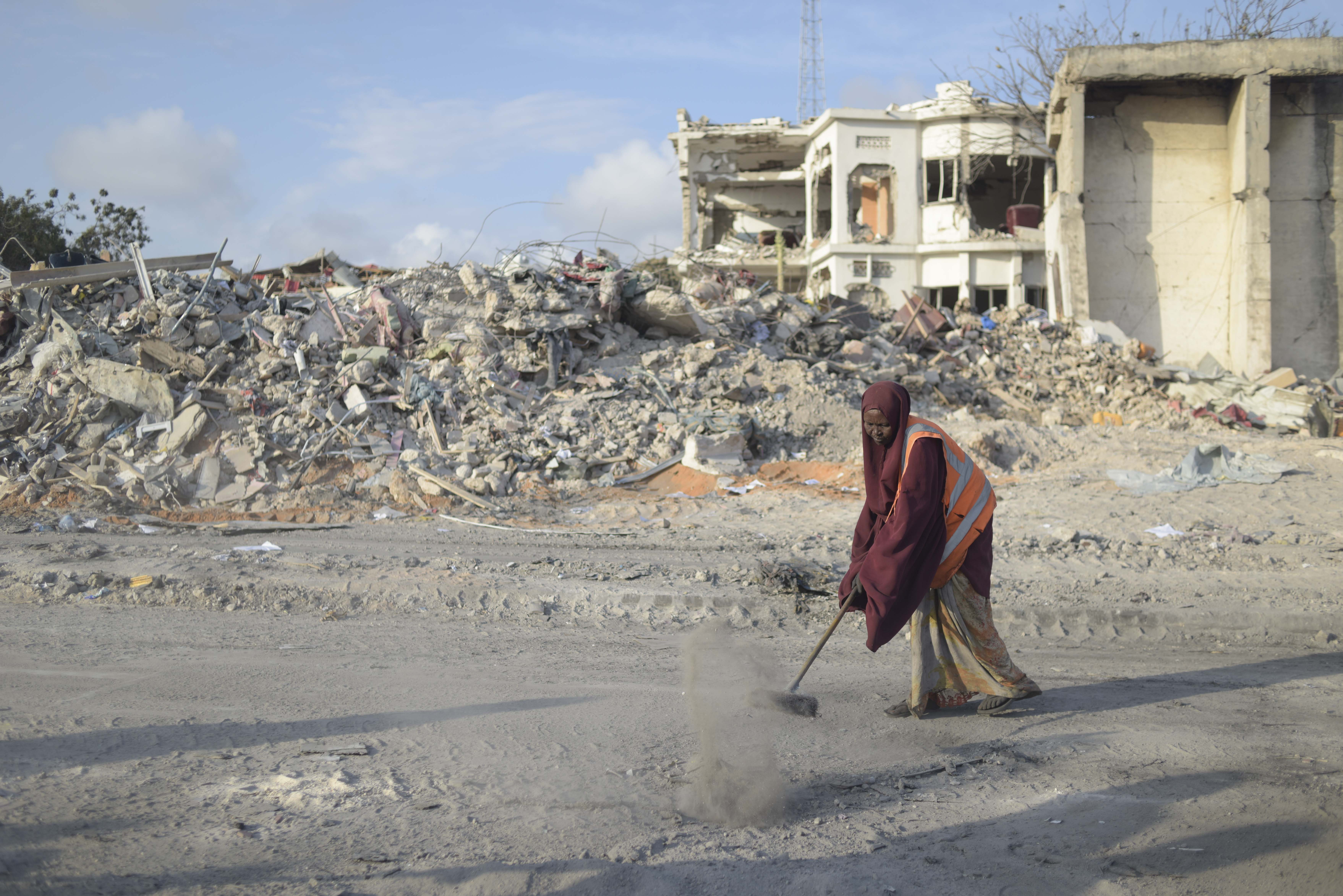 The African Union Mission in Somalia's Ugandan Contingent Commander, Brigadier General Kayanja Muhanga, visits the site of a VBIED attack conducted by the militant group al Shabaab in the Somali capital of Mogadishu on October 15, 2017